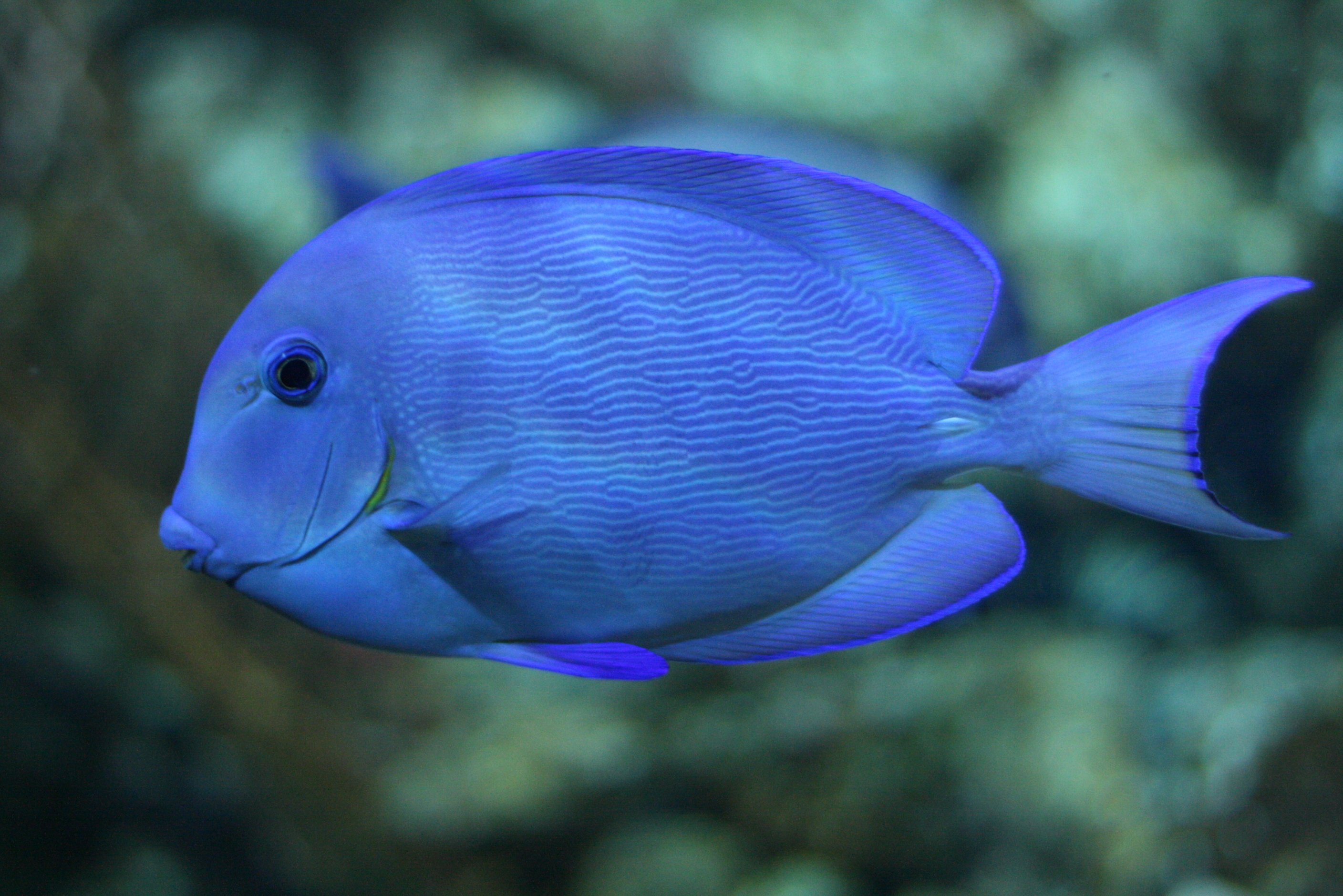 Atlantic blue tang surgeonfish (Acanthurus coeruleus),Parc Paradisio, Hainaut, Belgium.